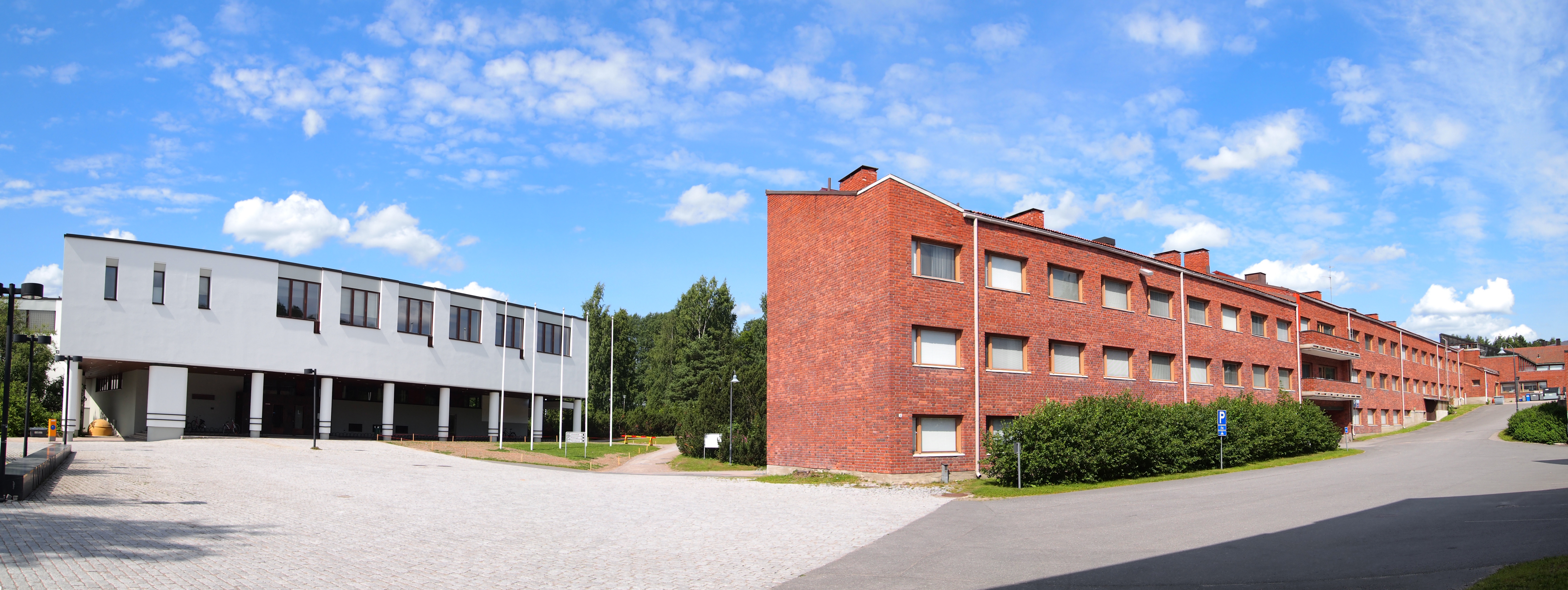 Sport sciencies (left) and Philologica (right) buildings in Seminaarinmäki campus, Jyväskylä. This photograph was taken with an Olympus E-PL1